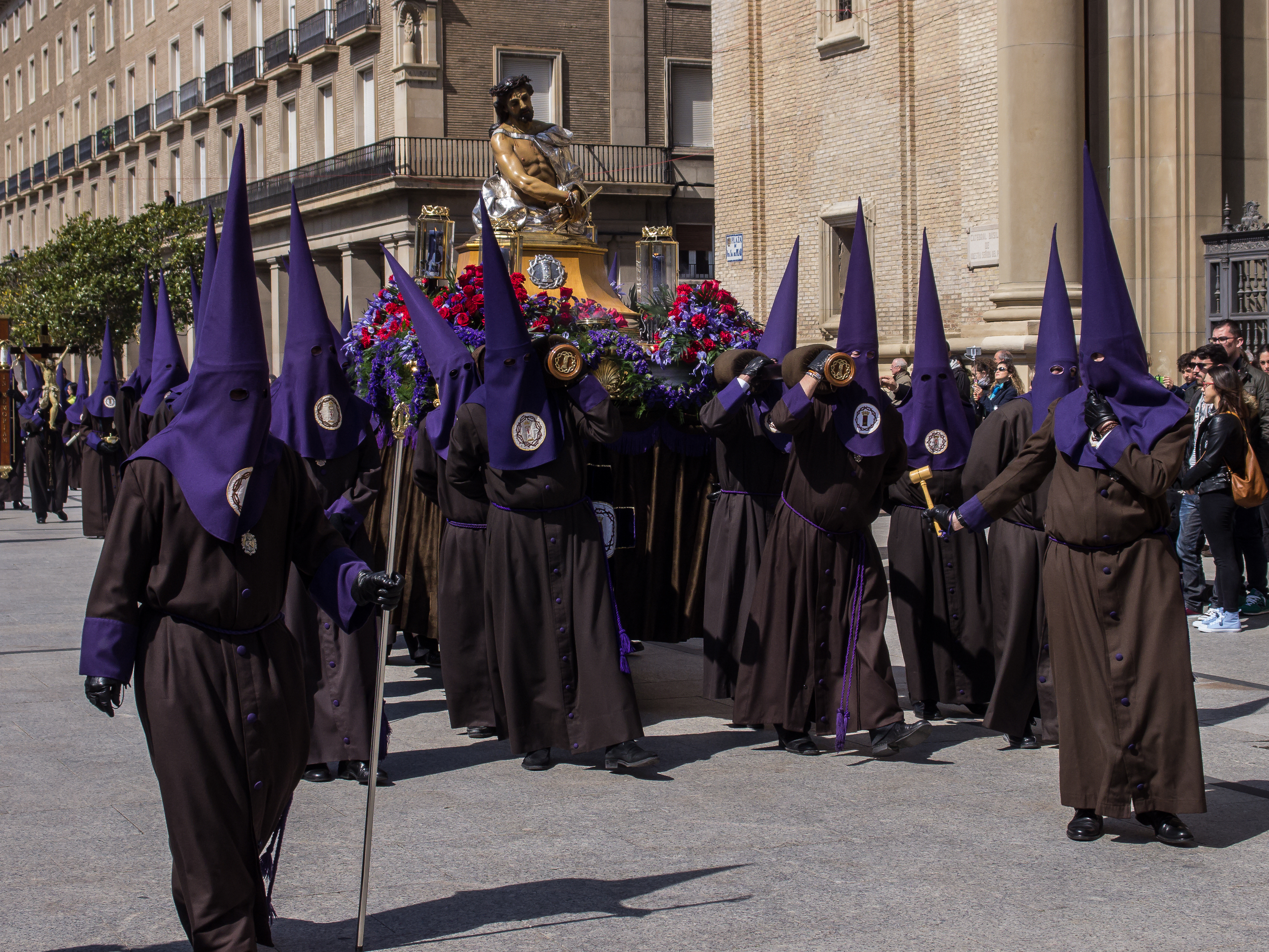 OLYMPUS DIGITAL CAMERA This is a photography of a Folklore festival in Spain (Wikidata id Q9075892).